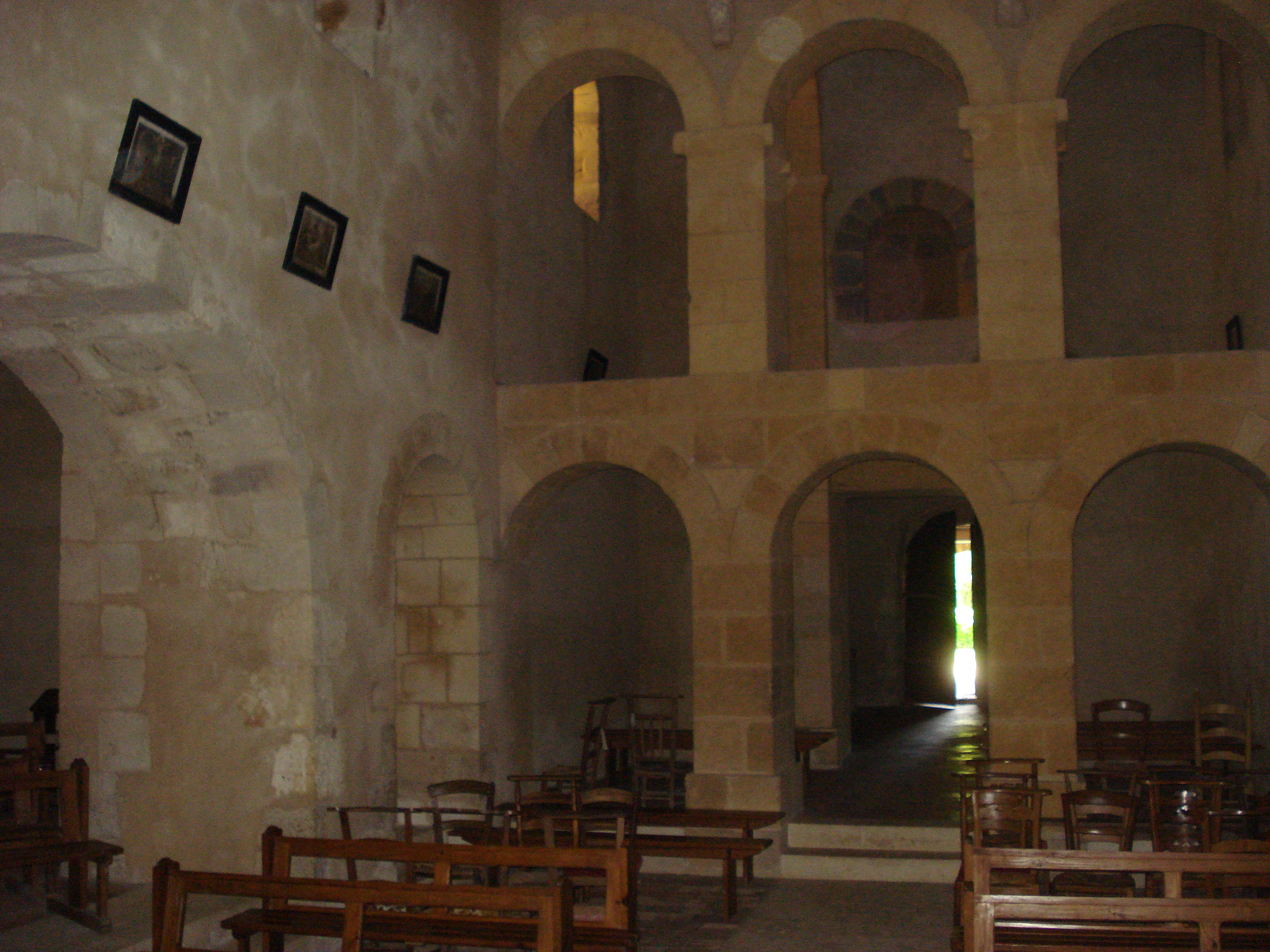 Bostens (Landes, Fr) church interior